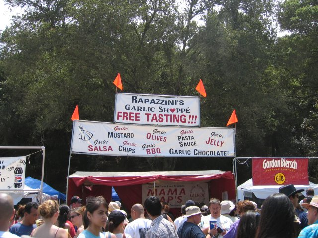 I took this picture.